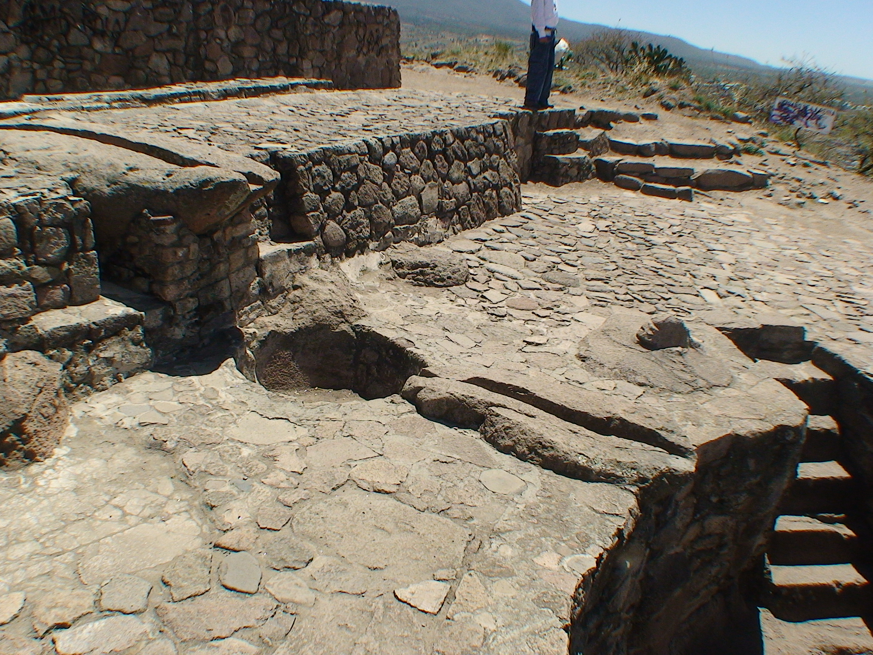 Tetzcotzingo, Texcoco, Edo. de México, Mexico